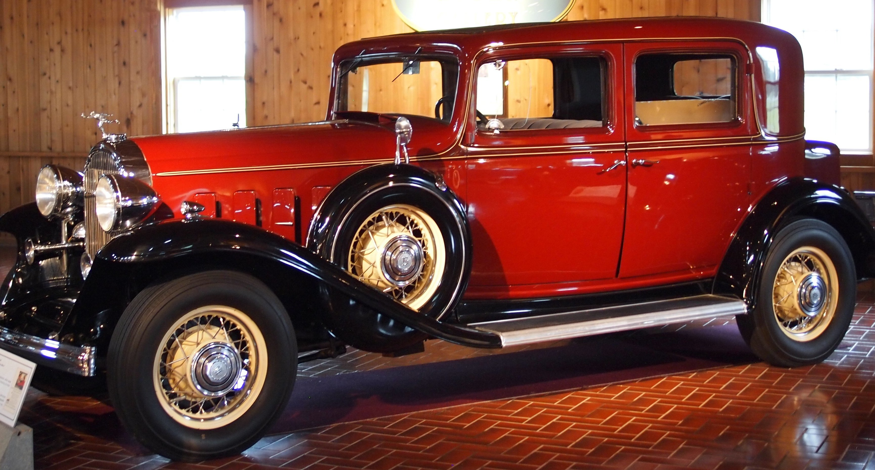 1932 Buick Series 90 4-Door Club Sedan Classic Car Club of America Museum